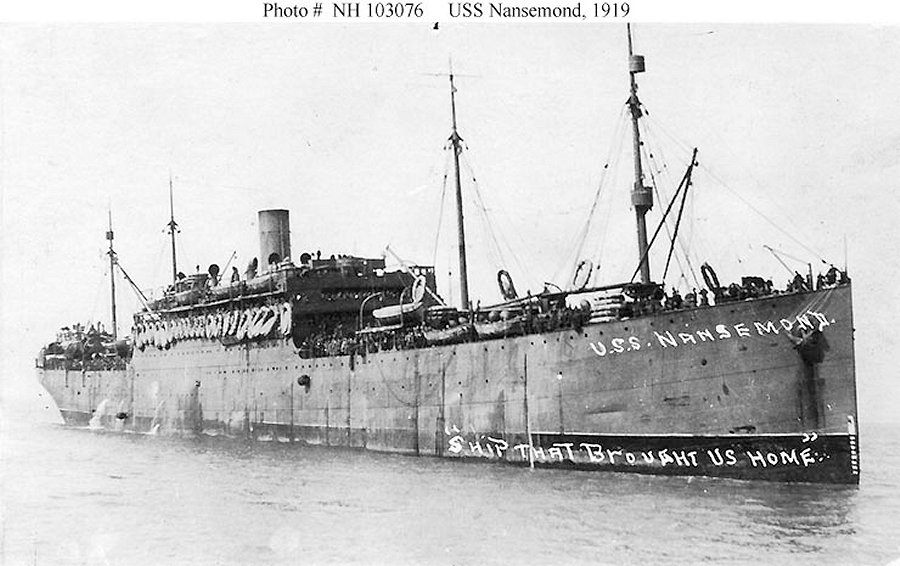 United States Navy troop tranpsort USS Nansemond (ID-1395) with troops aboard, probably while arriving in a United States East Coast port after a voyage from Europe